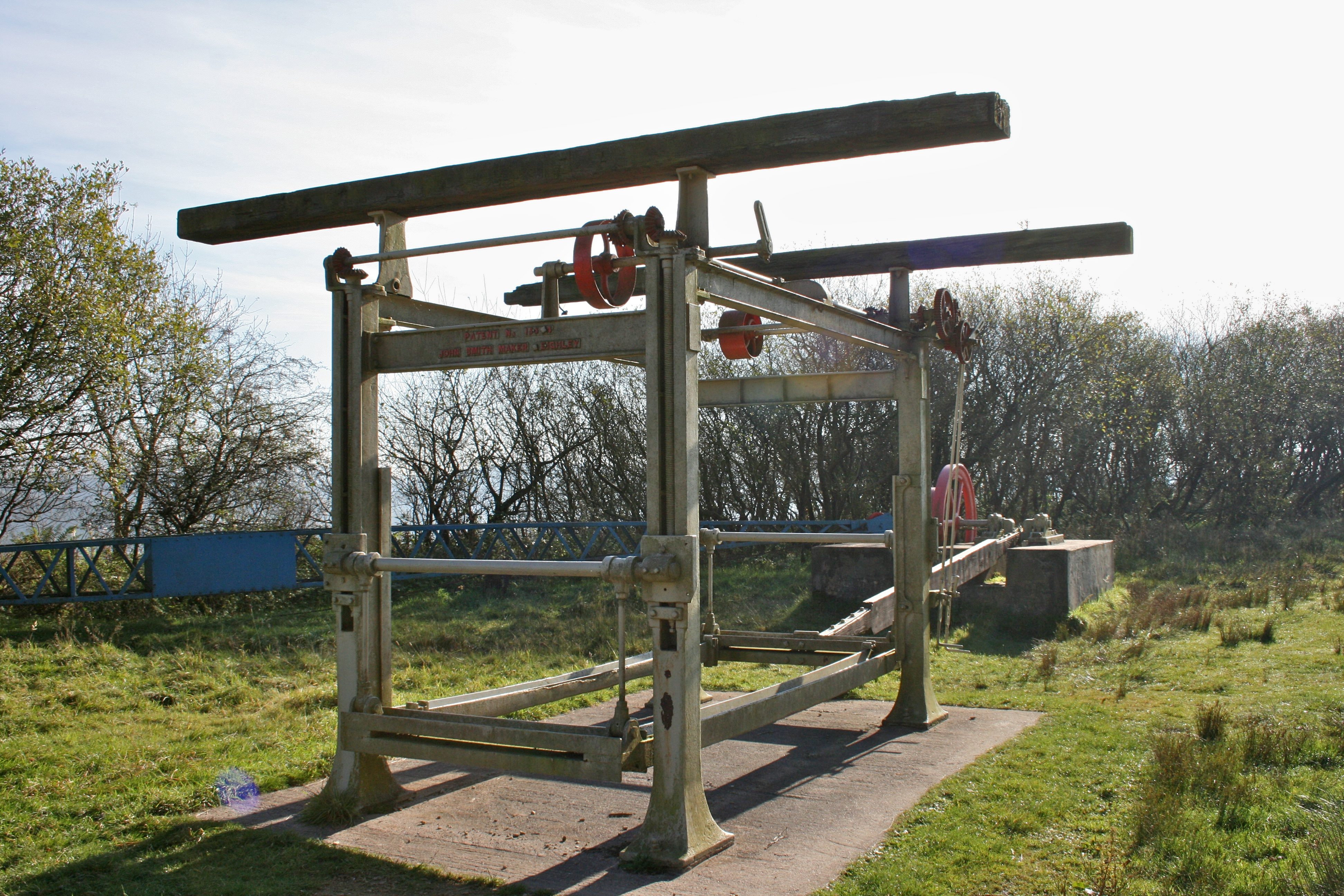 Swing Saw, Tegg's Nose Quarry